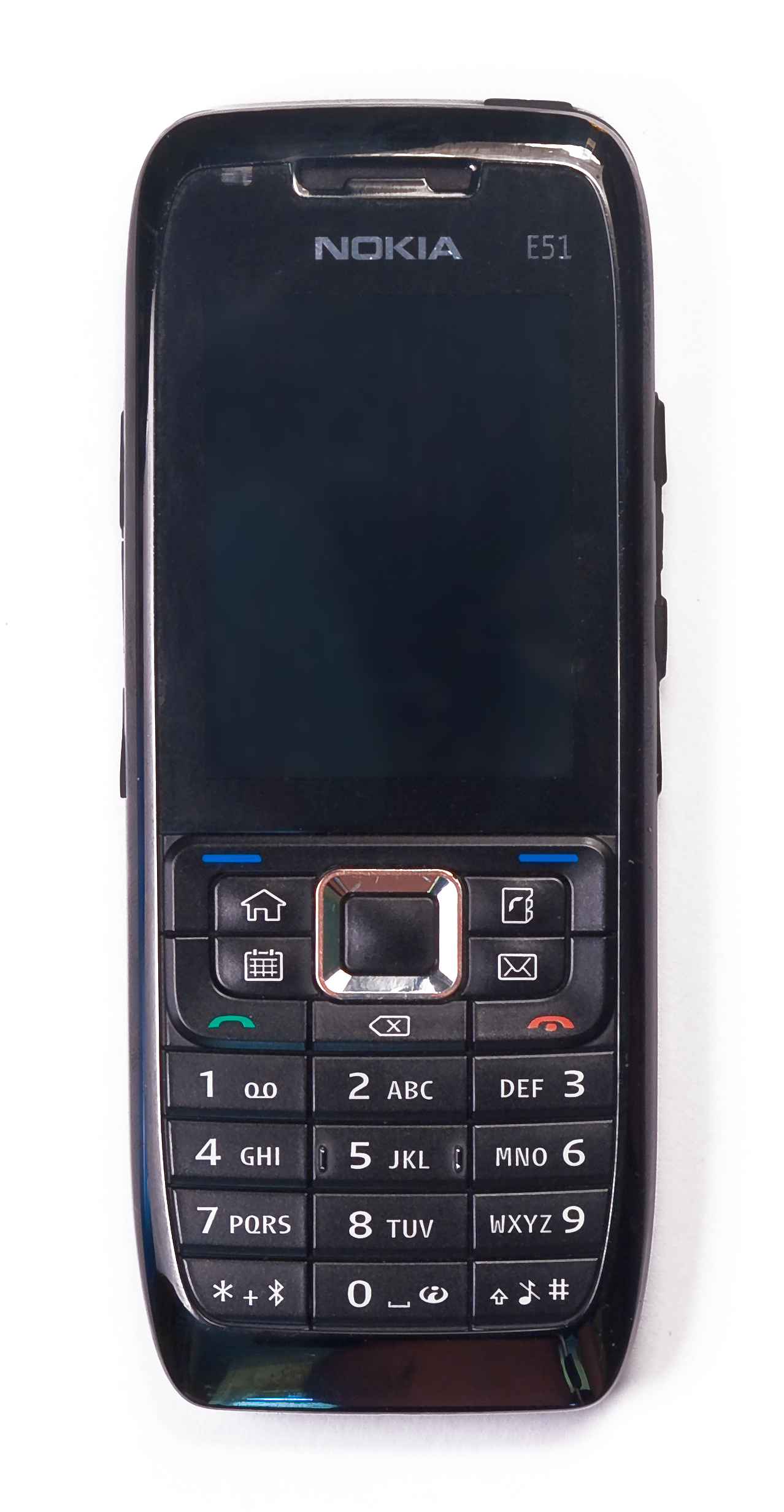 Black mobile phone Nokia E51